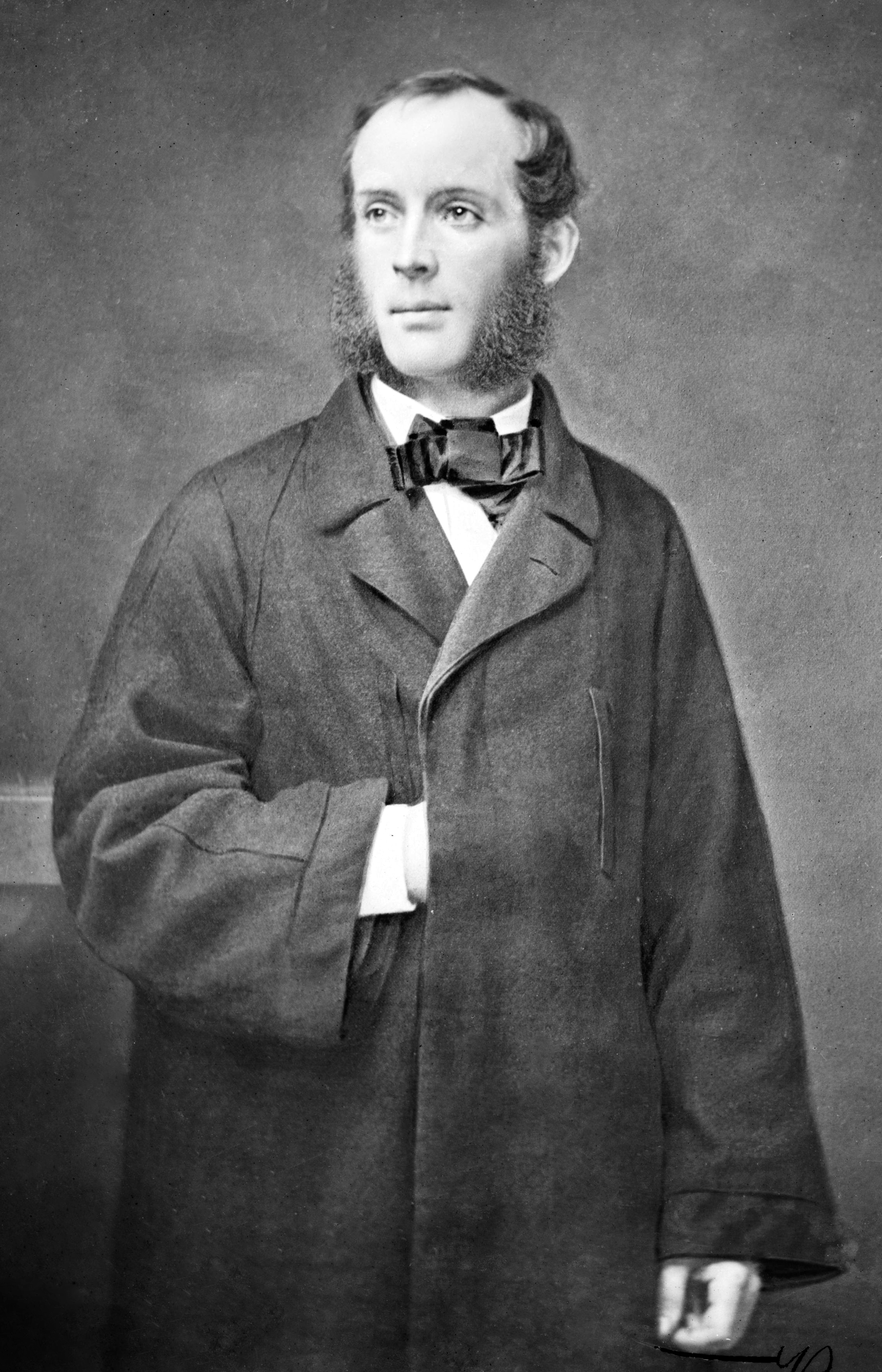 Frederic Edwin Church. Library of Congress description: "Frederick E. Church"